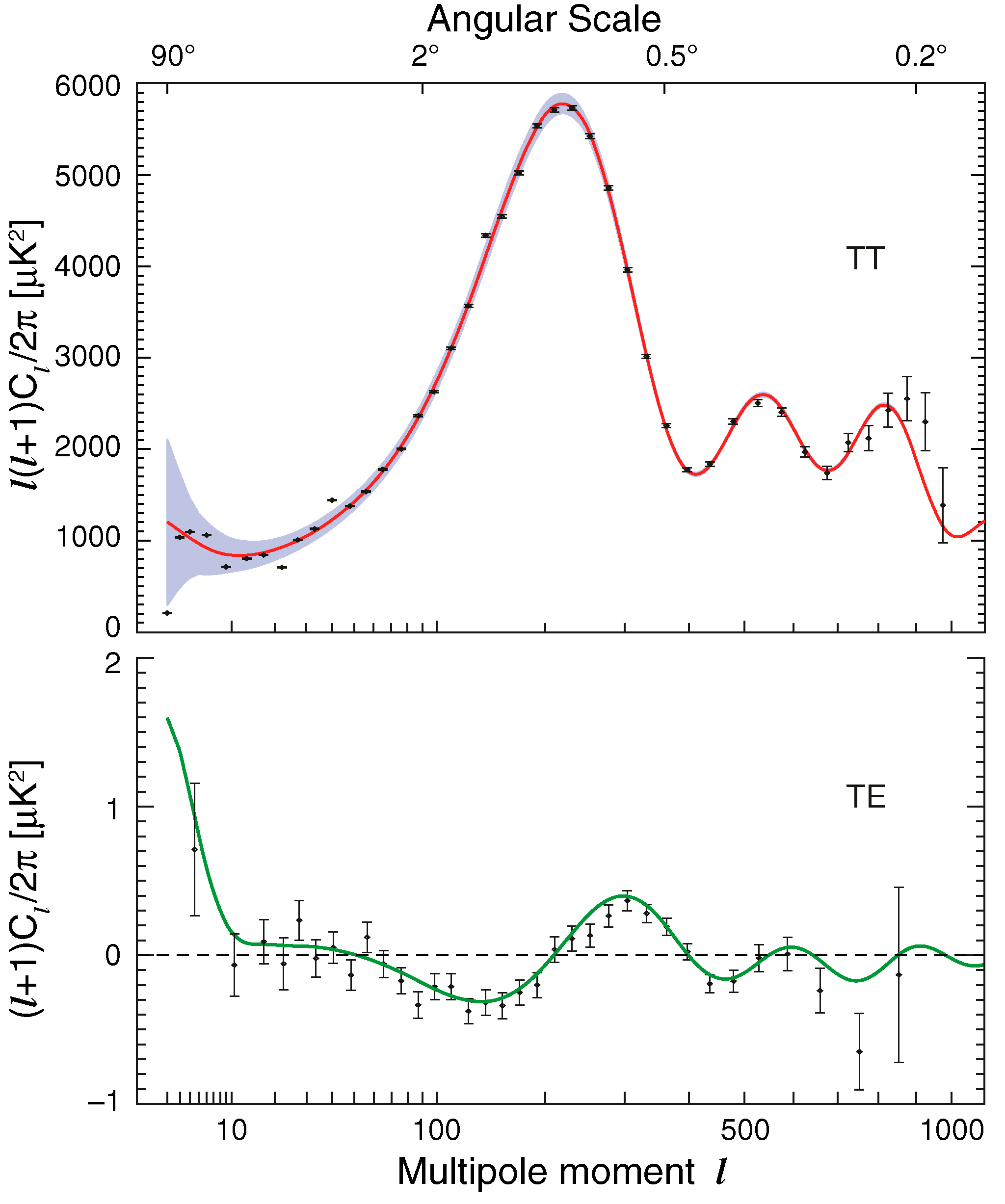 "Temperature and polarization power spectra derived from the WMAP 5-year data. Data are represented as points, curves correspond to the best-fit LCDM model, and shaded regions delineate cosmic variance about the model."